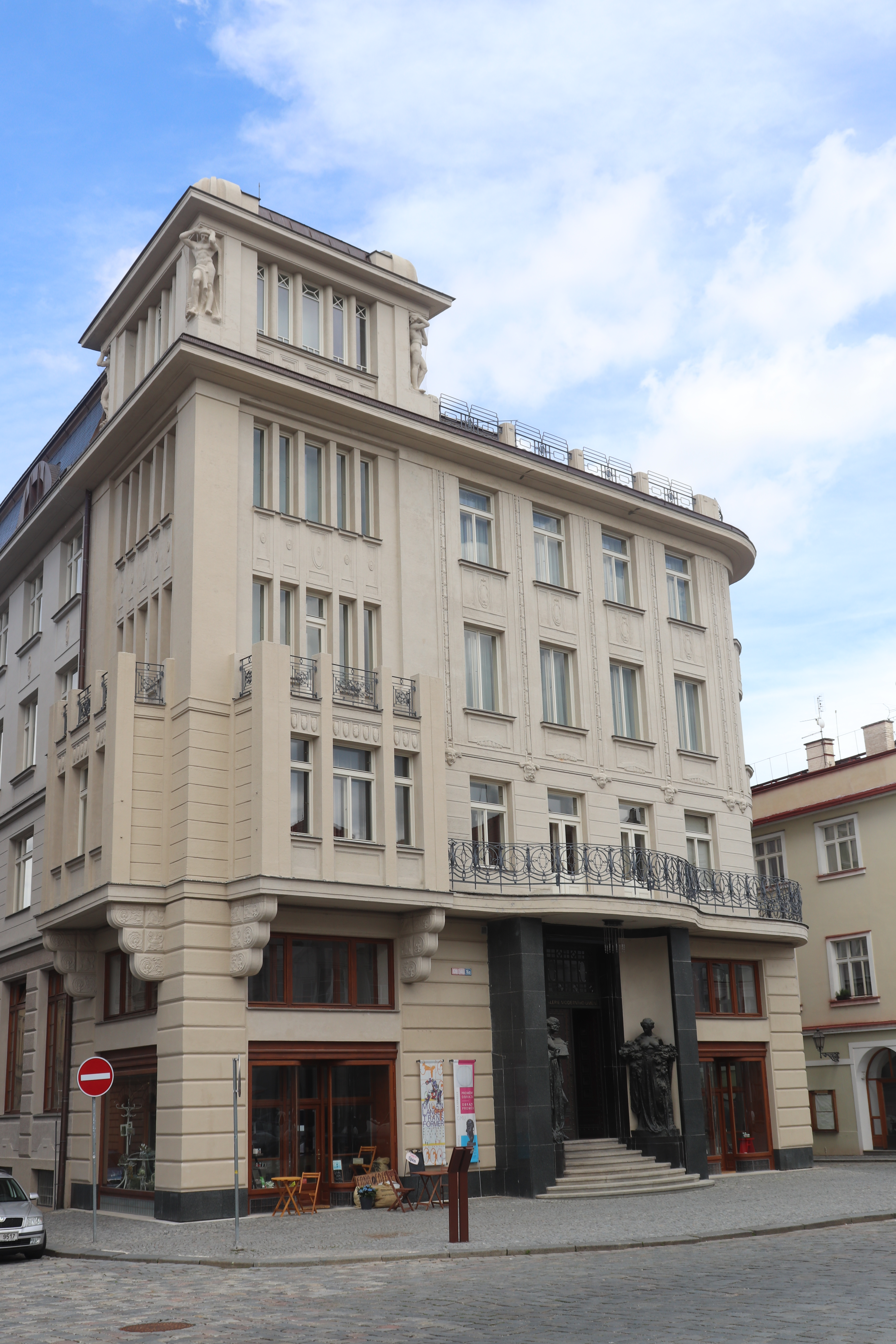 Hradec Králové - Gallery of Modern Art